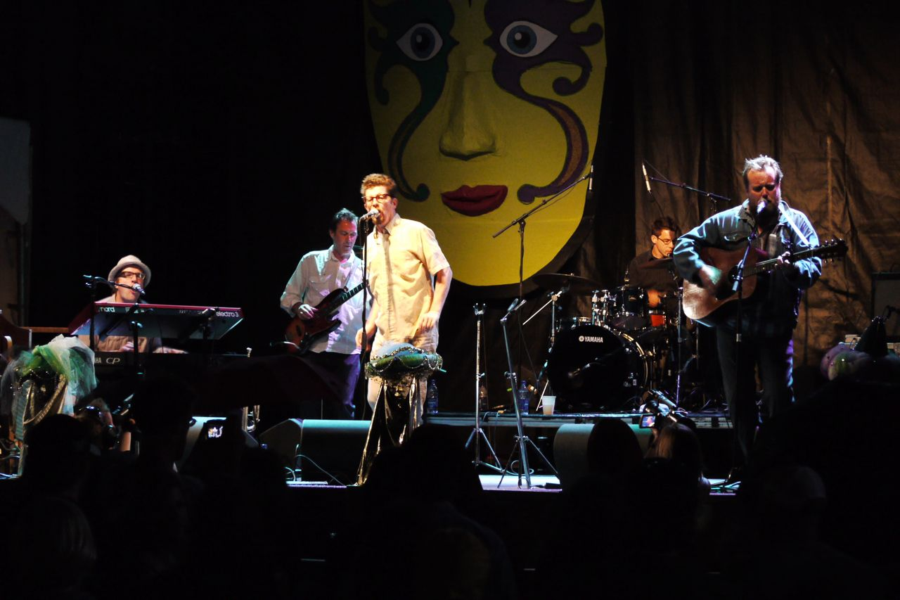 Skydiggers